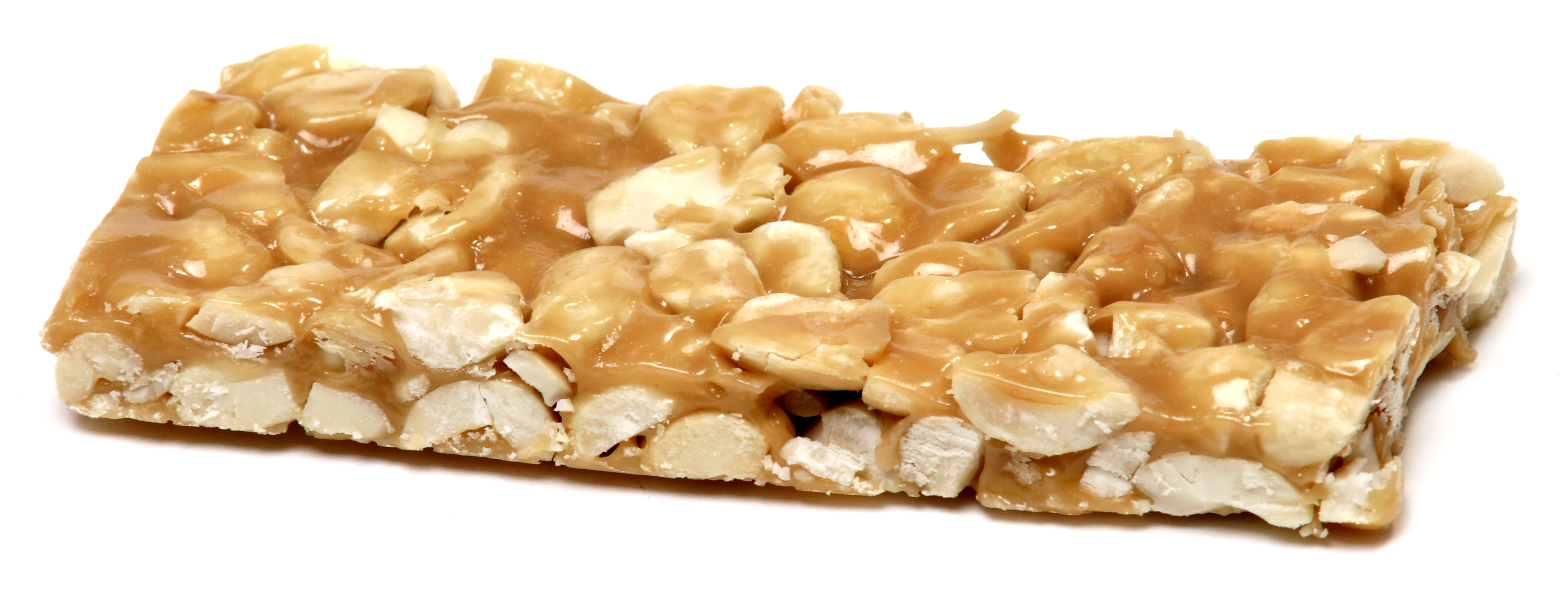 A Munch bar made by Mars. It's basically a high-density peanut brittle.